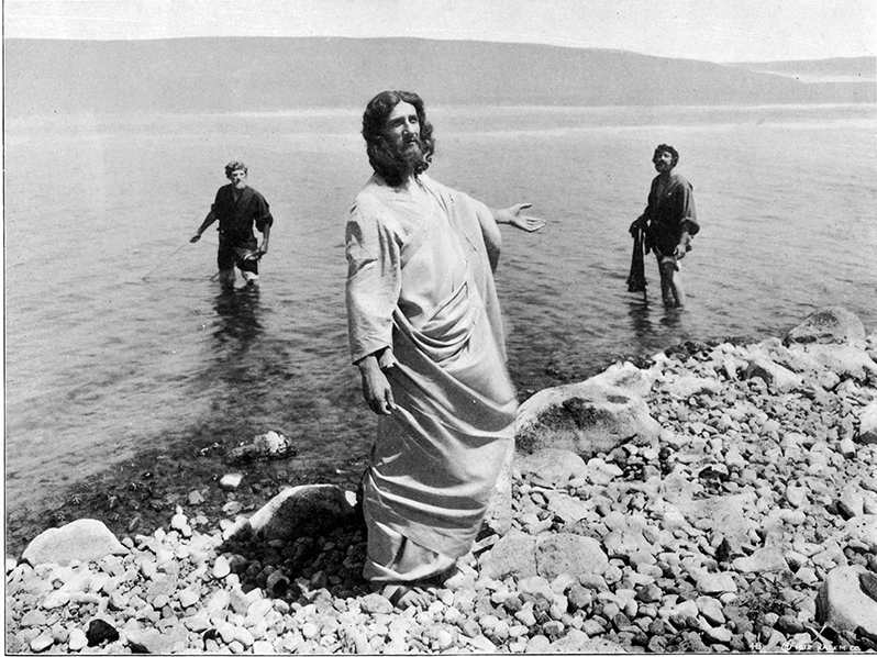 From the Manger to the Cross ('1913), production Kalem, réalisation Sidney Olcott avec Robert Henderson Bland.